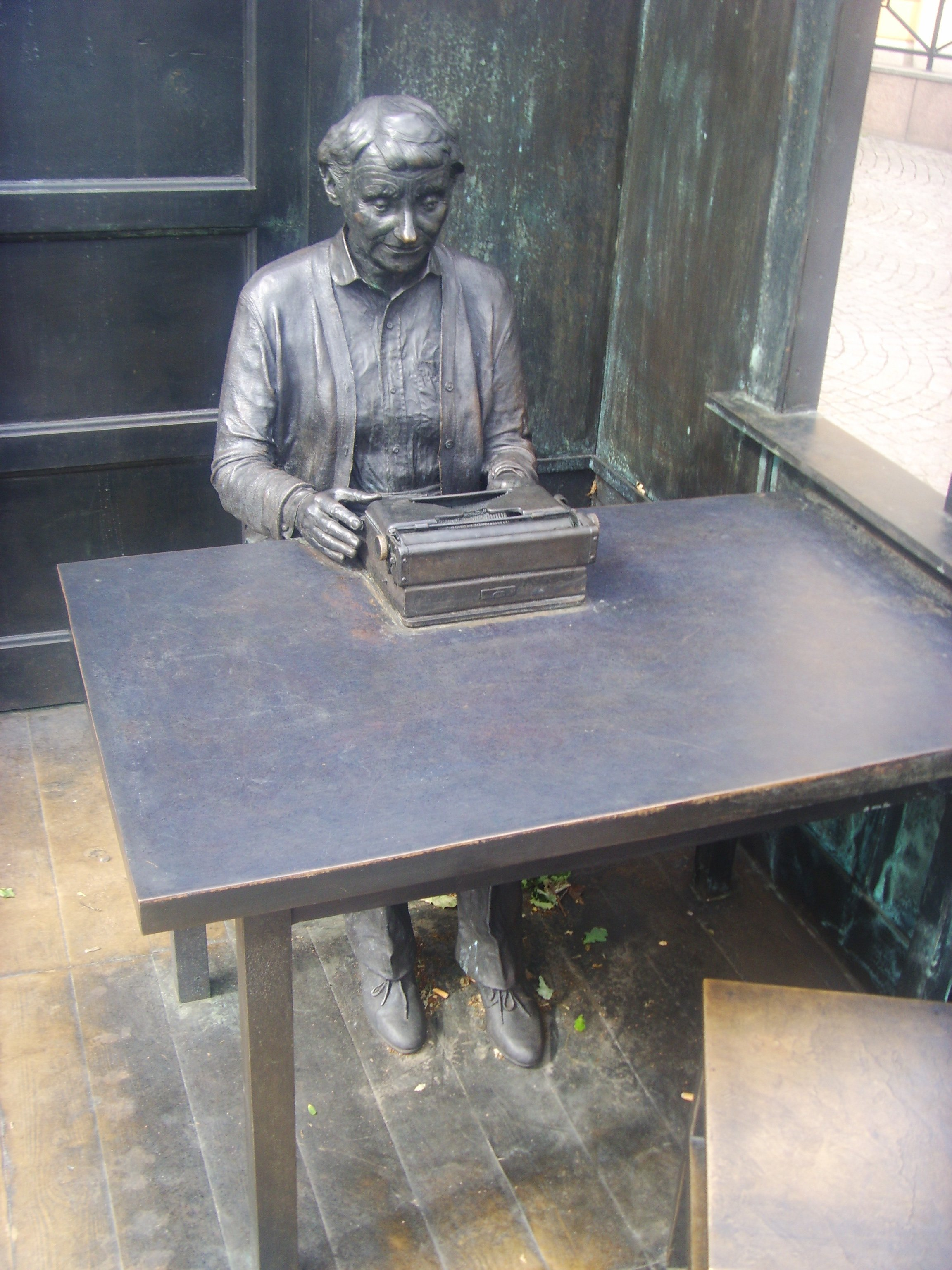 Vimmerby